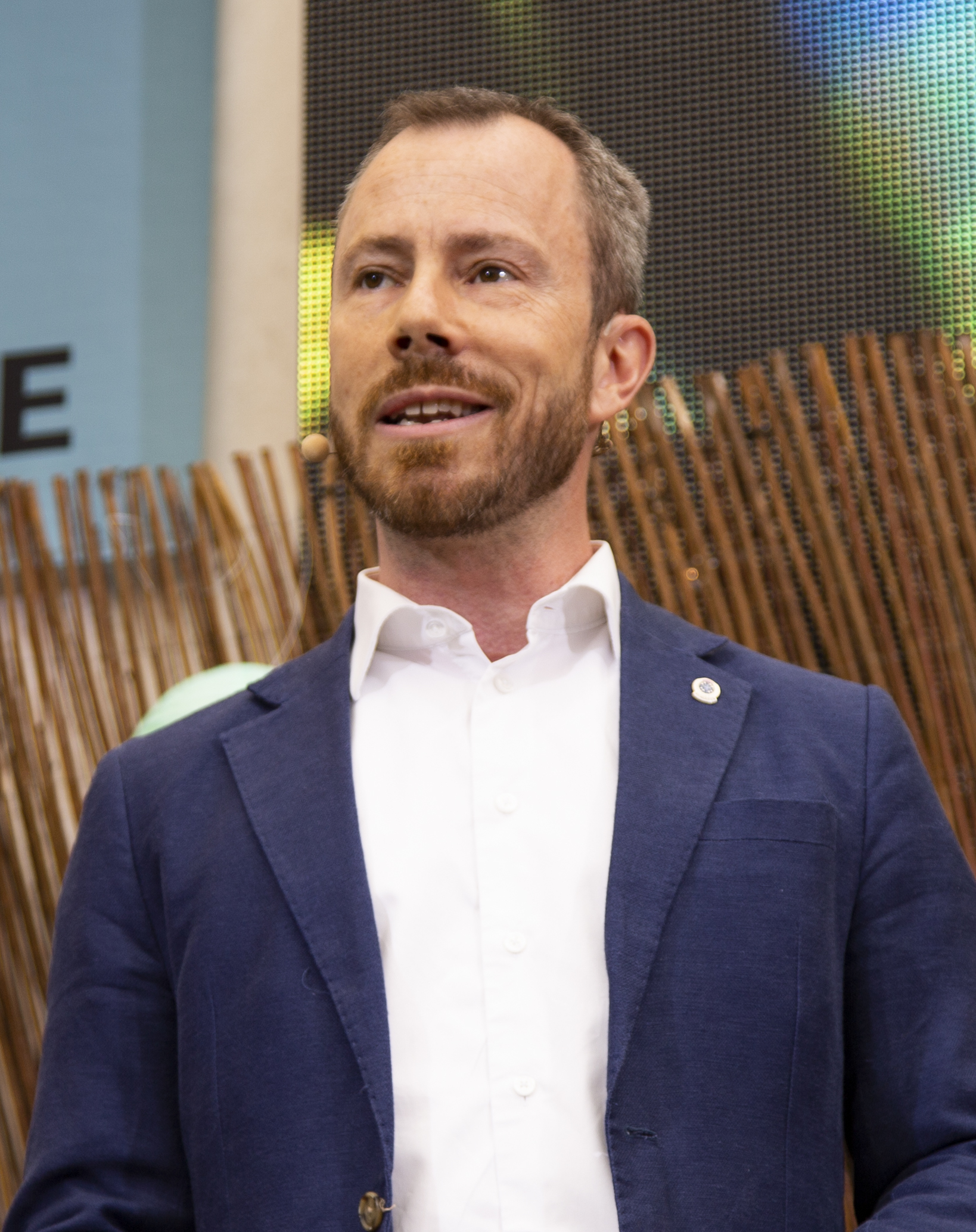 Jakob Elleman-Jensen, Venstres formand, afholder partiledertale på Altingets digitale sommermøde 2020. Photo: News Øresund – Sofie Paisley © News Øresund - Sofie Paisley (CC BY 3.0) Detta verk av News Øresund är licensierat under en Creative Commons Erkännande 3.0 Unported-licens (CC BY 3.0). Bilden får fritt publiceras under förutsättning att källa anges. The picture can be used freely under the prerequisite that the source is given. News Øresund, Malmö, Sweden News Øresund är en oberoende regional nyhetsbyrå som är en del av det oberoende dansk-svenska kunskapscentrat Øresundsinstituttet.